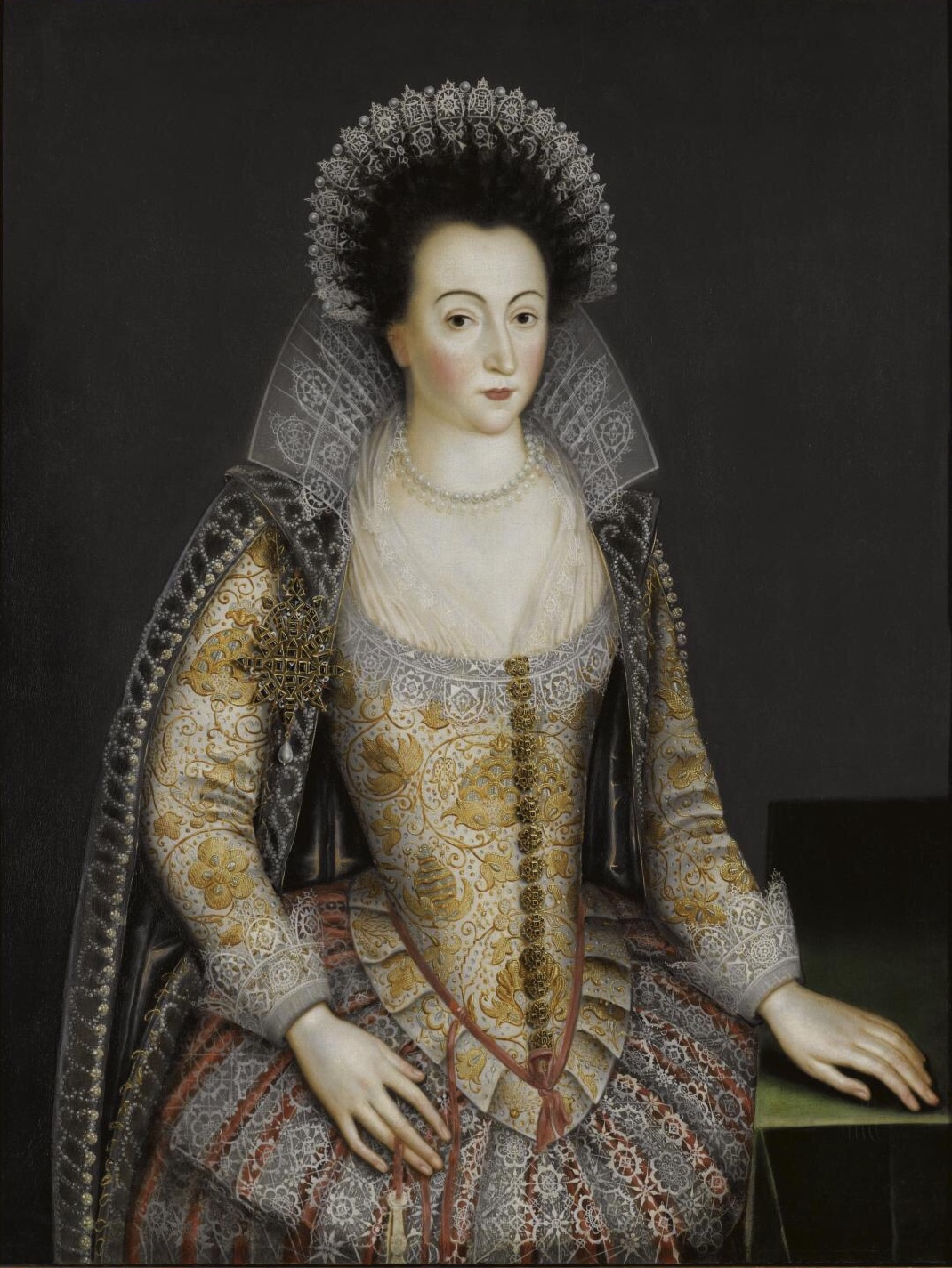 Portrait of a Lady, probably Alice Spencer, Countess of Derby (1559-1637)